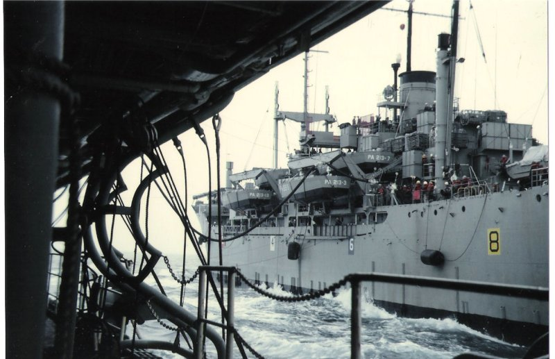 USS Mountrail (APA-213)USS Waccamaw (AO-109)in 1967 during an underway refueling from , location unknown.